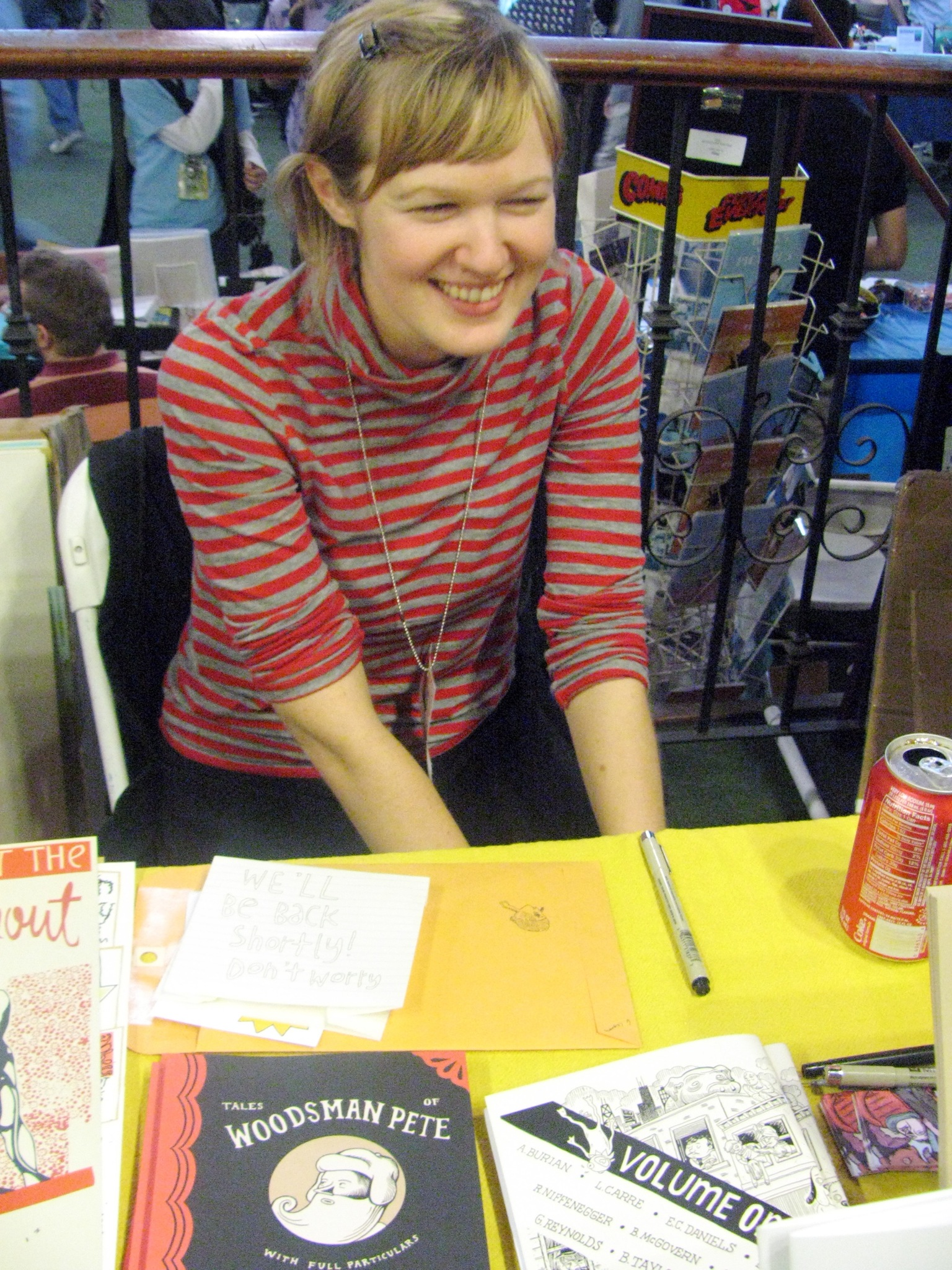 American artist, film maker and cartoonist Lilli Carré at the Alternative Press Expo, with her book 'Tales of Woodsman Pete' .